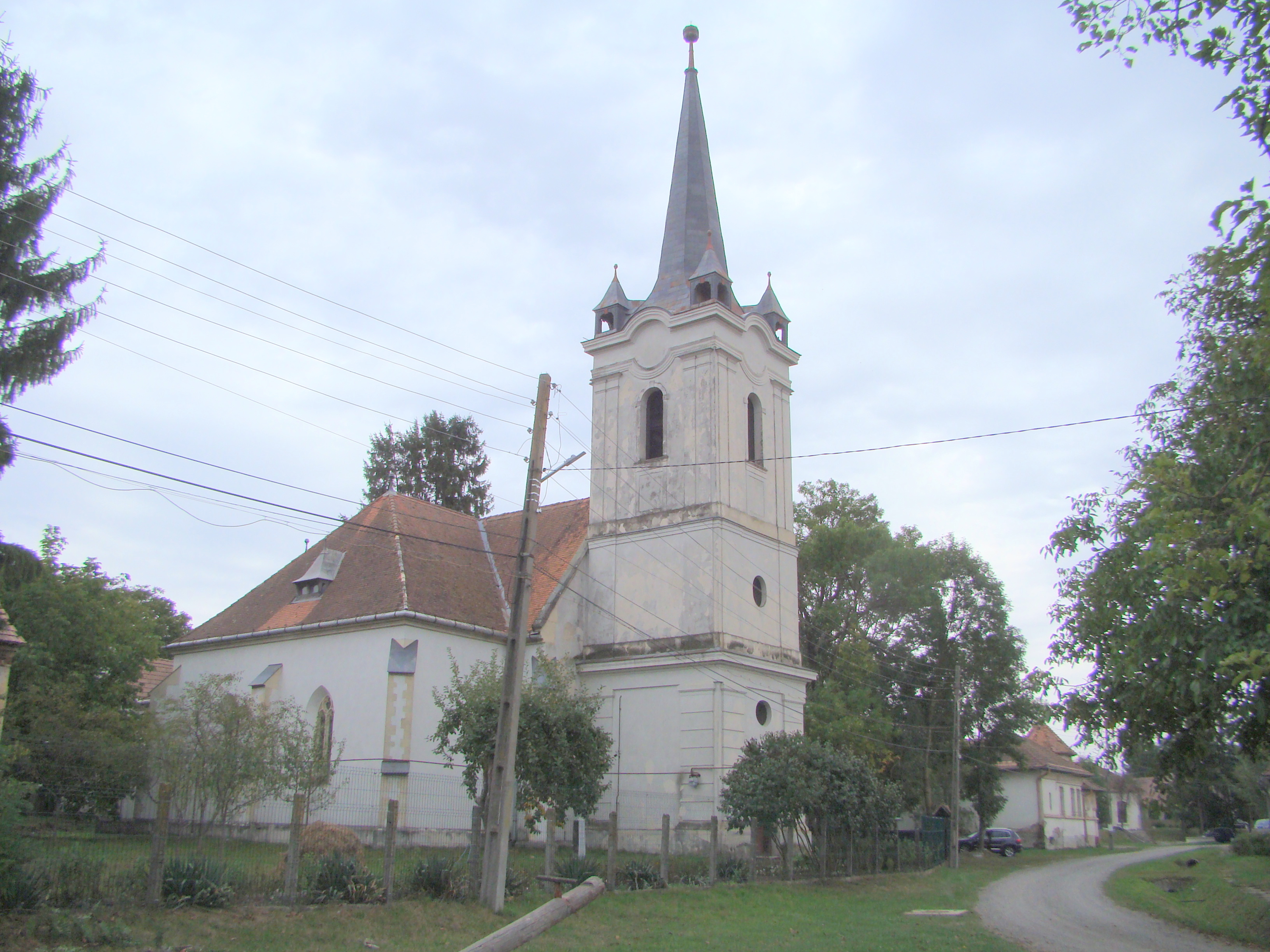 Reformed church in Gornești, Mureș county, Romania